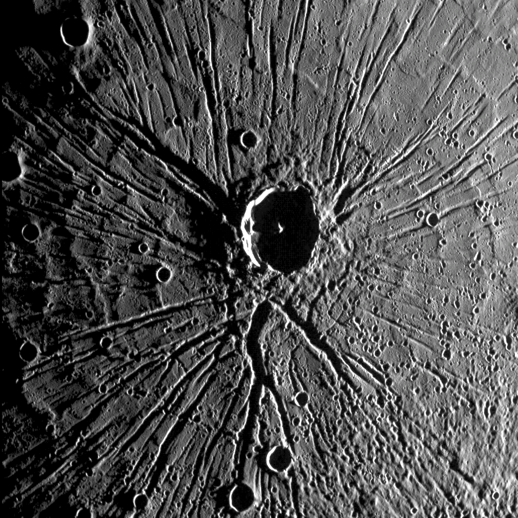 Pantheon Fossae on Mercury. Photo by MESSENGER. "Original image data dated on or about October 14, 2012".